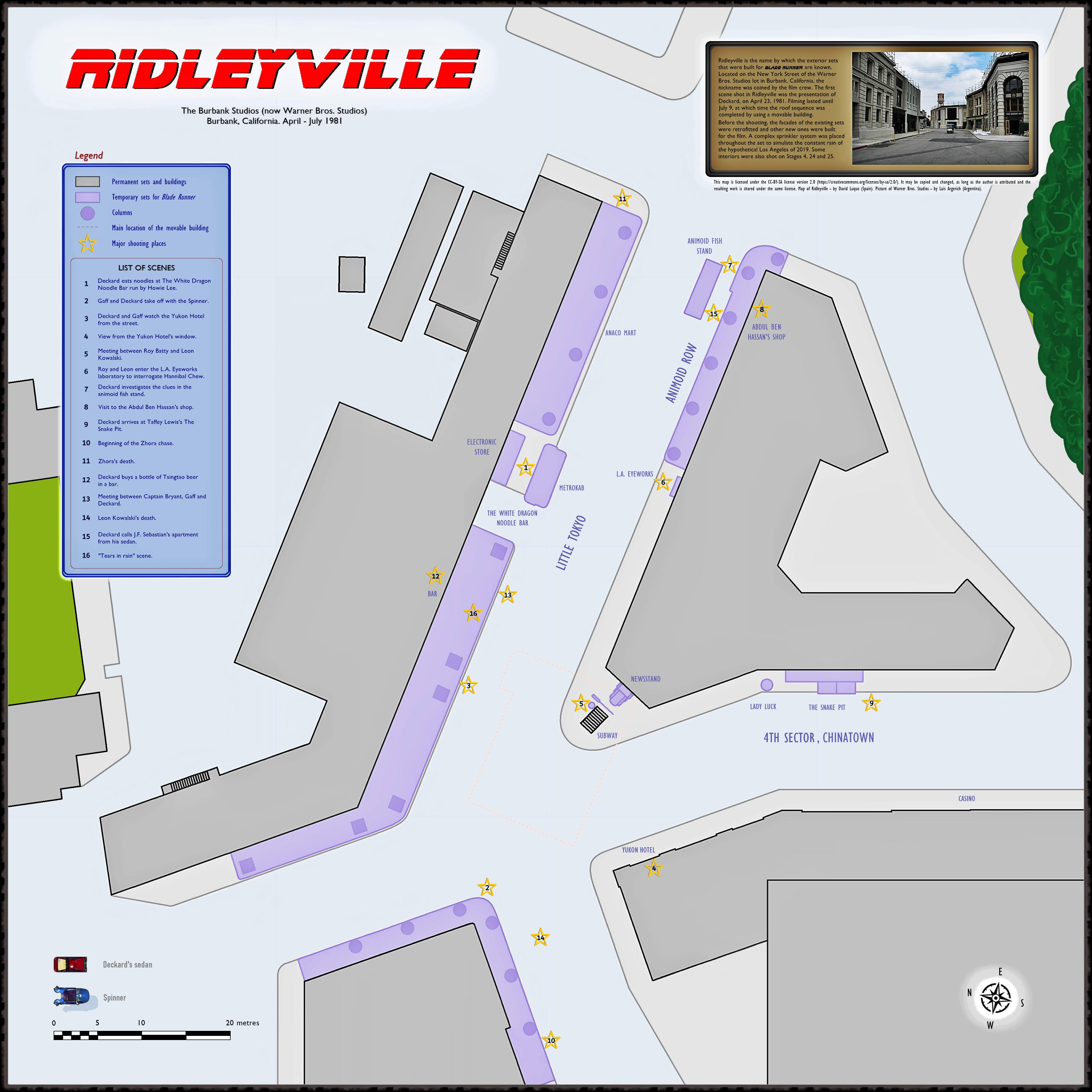 An unofficial fan made map of Ridleyville, name by which the exterior sets that were built for Blade Runner (Ridley Scott, 1982) in Warner Bros. Studios (Burbank, California) are known. Filming in Ridleyville lasted from April to June 1981.